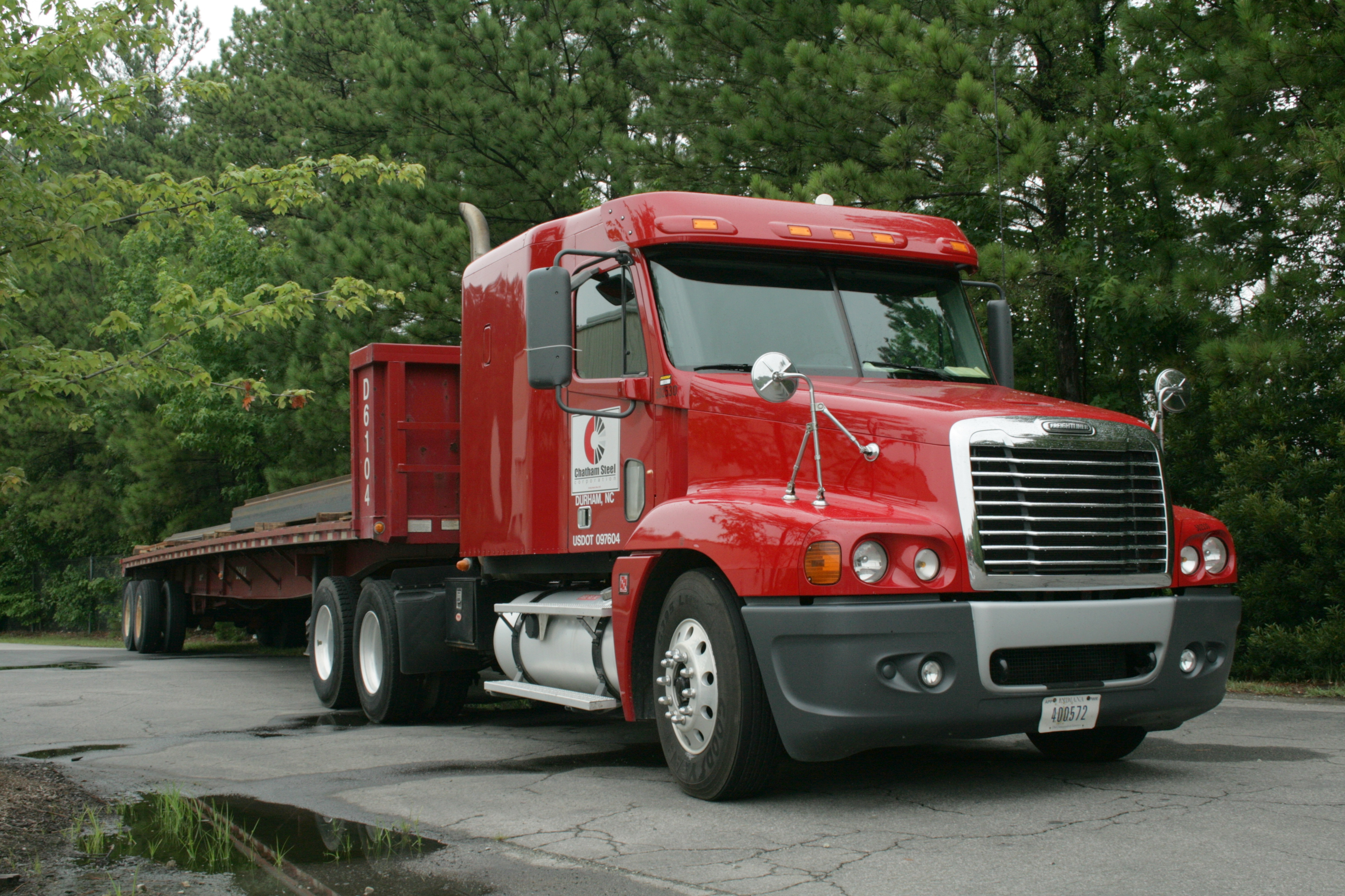 A Chatham Steel Corporation Freightliner truck parked at the steel distribution center at 2702 Cheek Road in Durham, North Carolina.